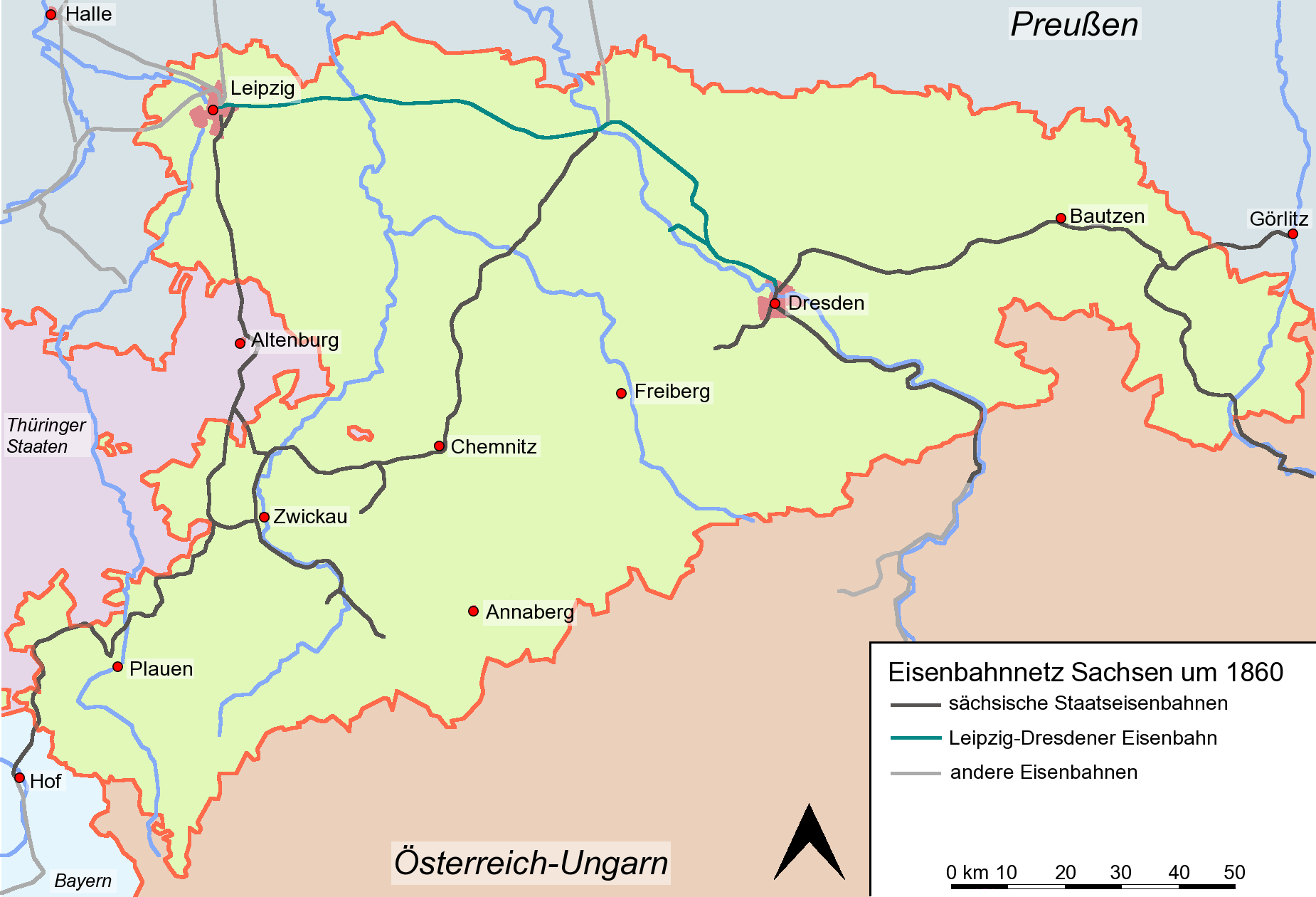 Railway network in Saxony to 1860. Railway construction to 1840 - to 1860 - to 1880